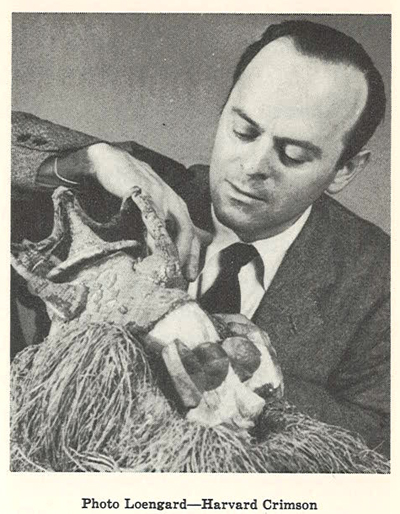 Harry Bober (1915-1988)- Photo From the Harvard Crimson